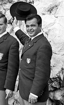 Coach Hermann Nogler after returning from the Alpine World Ski Championships of Portillo in Chile. Selva di Val Gardena, August 1966